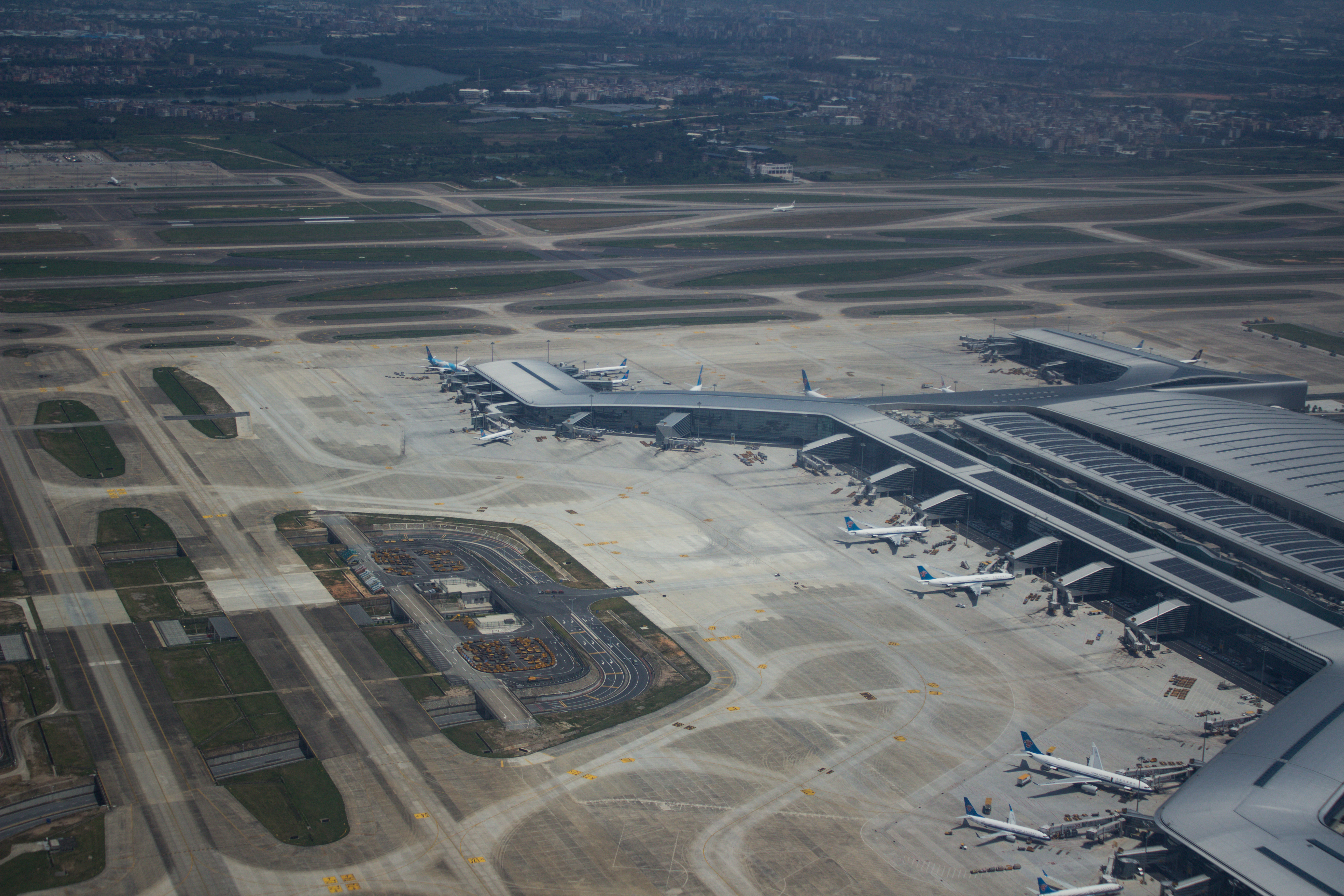 An aerial view of the Guangzhou Baiyun International Airport.